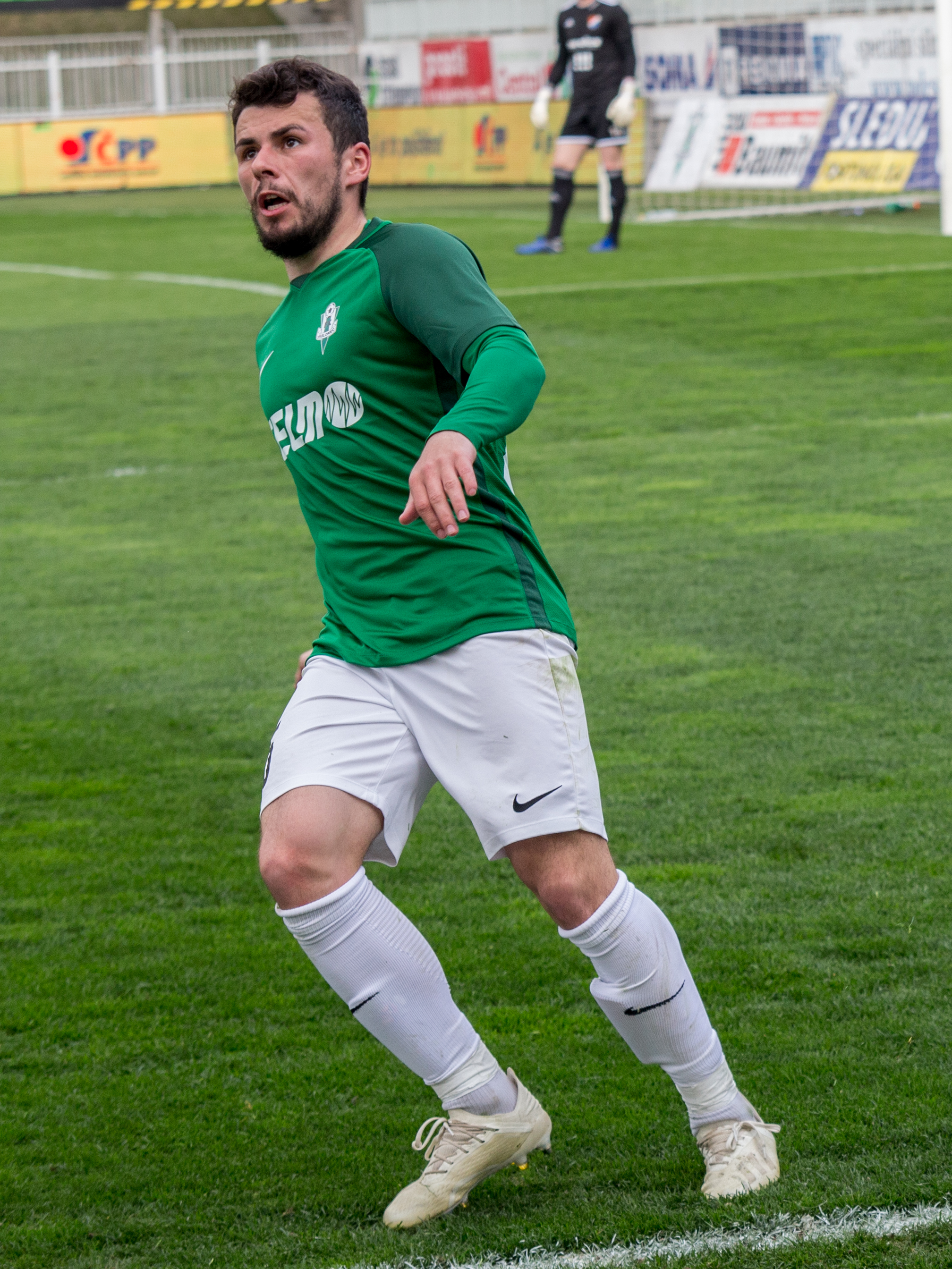 Vladimir Jovović at the Czech First League association football match with FK Jablonec v FC Baník Ostrava Personality rights warningAlthough this work is freely licensed or in the public domain, the person(s) shown may have rights that legally restrict certain re-uses unless those depicted consent to such uses. In these cases, a model release or other evidence of consent could protect you from infringement claims.